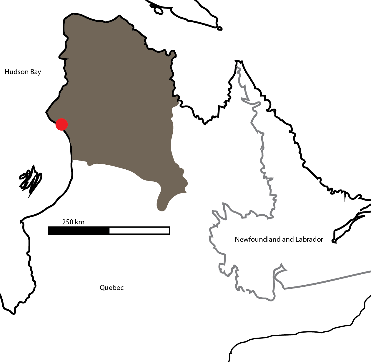 A map of northern Quebec showing the Nuvvuagittuq Greenstone belt as a red circle, and the Minto Block in brown